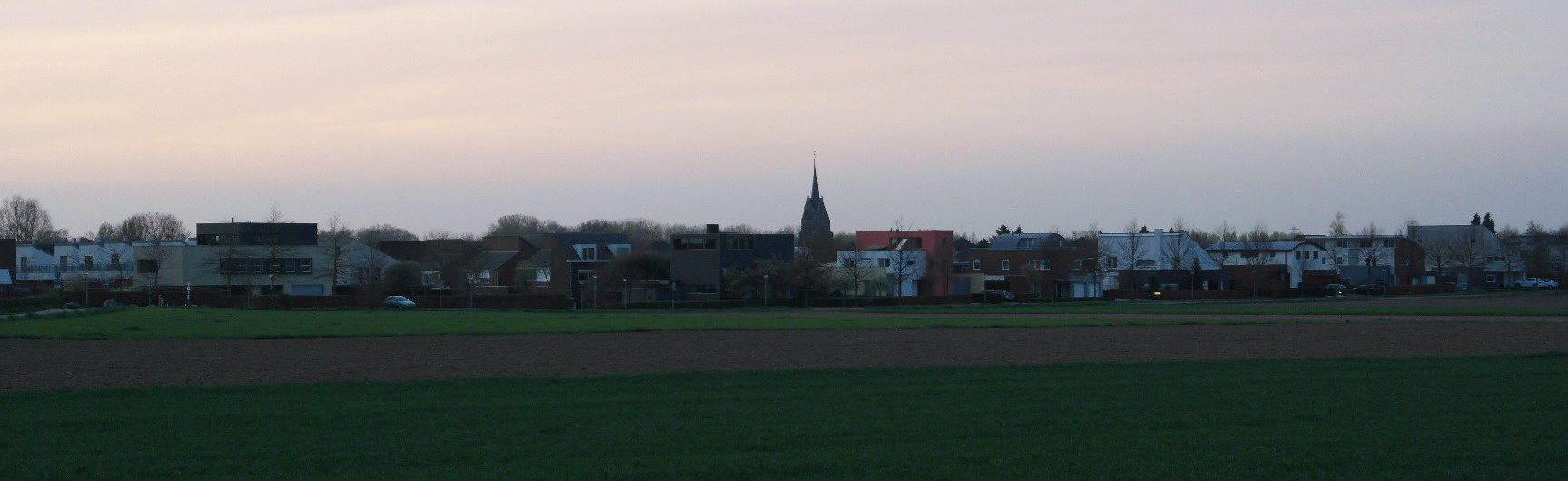 Maastricht, the Netherlands. Evening view of Amby.